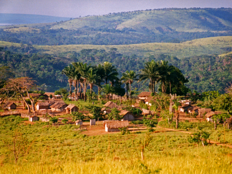 Typical Bandundu savanna village